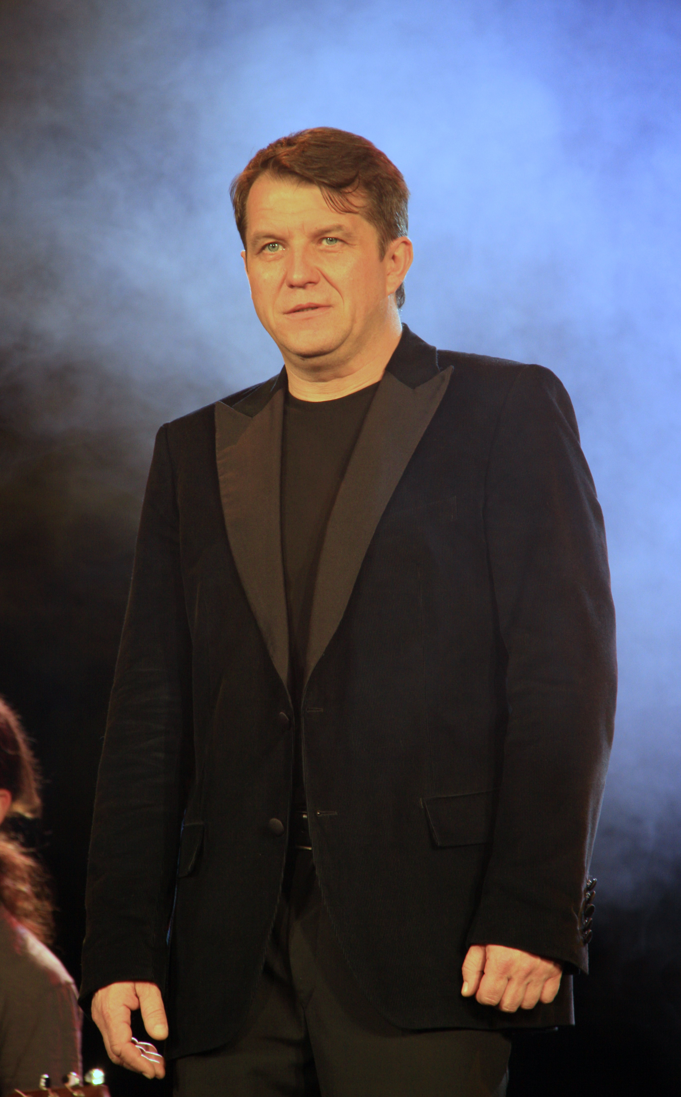 Gregory Gzyl - Polish actor, television and film. An attempt to pre-theater "Concert Orpheus", Busko-Zdroj, 28 April 2012.